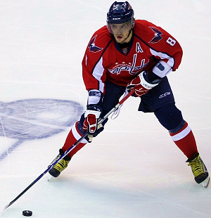 Alex Ovechkin, 2009